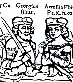 George I of Pomerania and his wife Amelia of the Palatinate